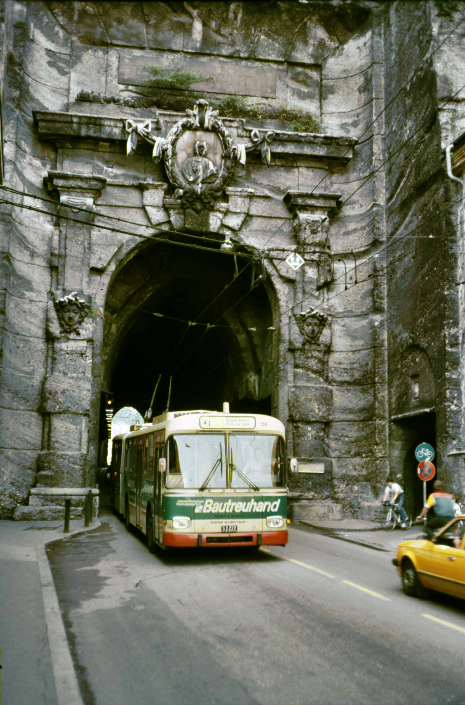 Trolley bus in Salzburg, Austria